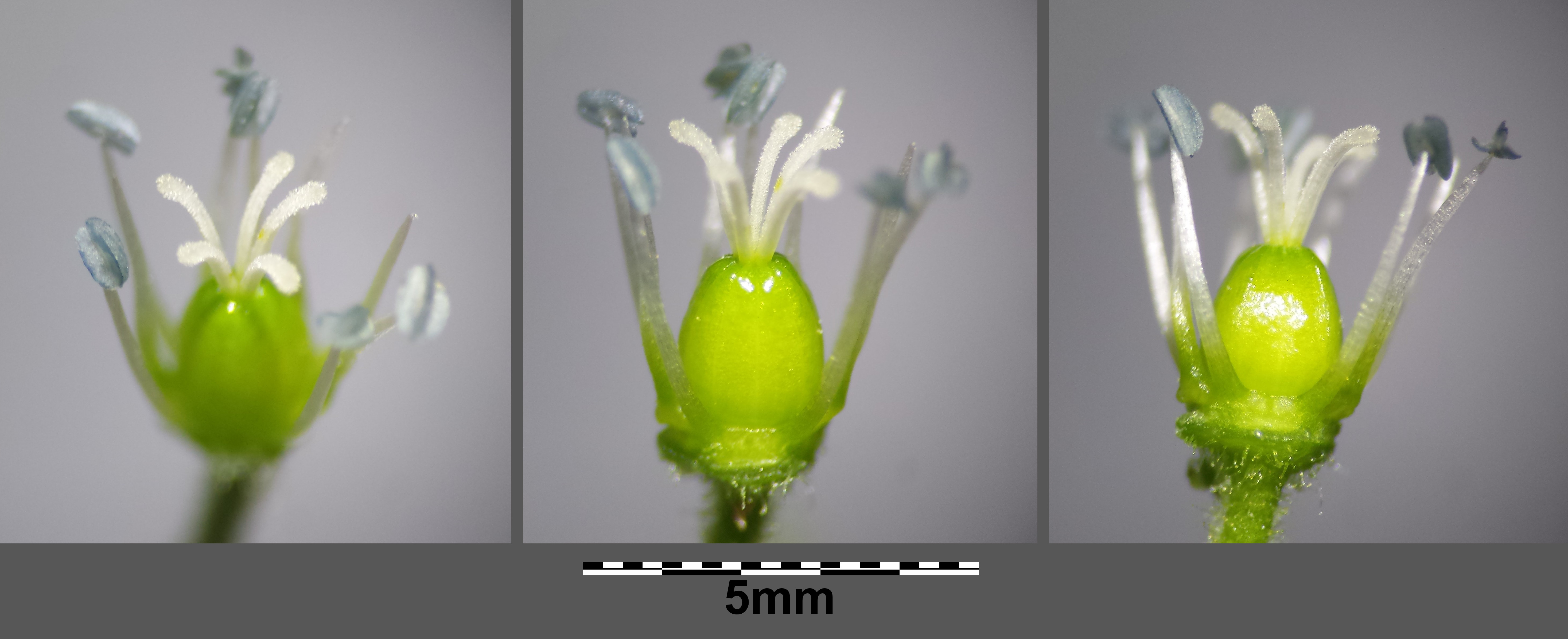 Flower, sepals and petals removed - ovary with 5 styli Taxonym: Stellaria aquatica ss Fischer et al. EfÖLS 2008 ISBN 978-3-85474-187-9 Location: Rohrwald, district Korneuburg, Lower Austria - ca. 300 m a.s.l. Habitat: wet wood